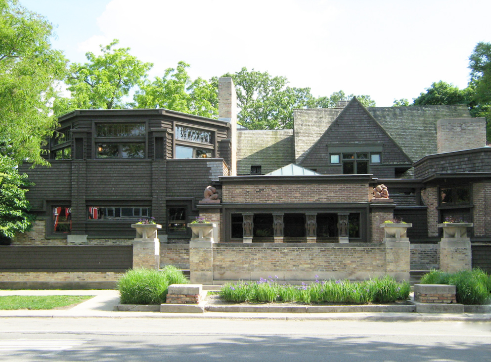 951 Chicago Ave Oak Park, IL 60302 Entrance facade of Frank Lloyd Wright's Studio restored to its 1909 appearance. This photo has had some minor editing including lens distortion correction and the removal of partial people and cars along the edges.